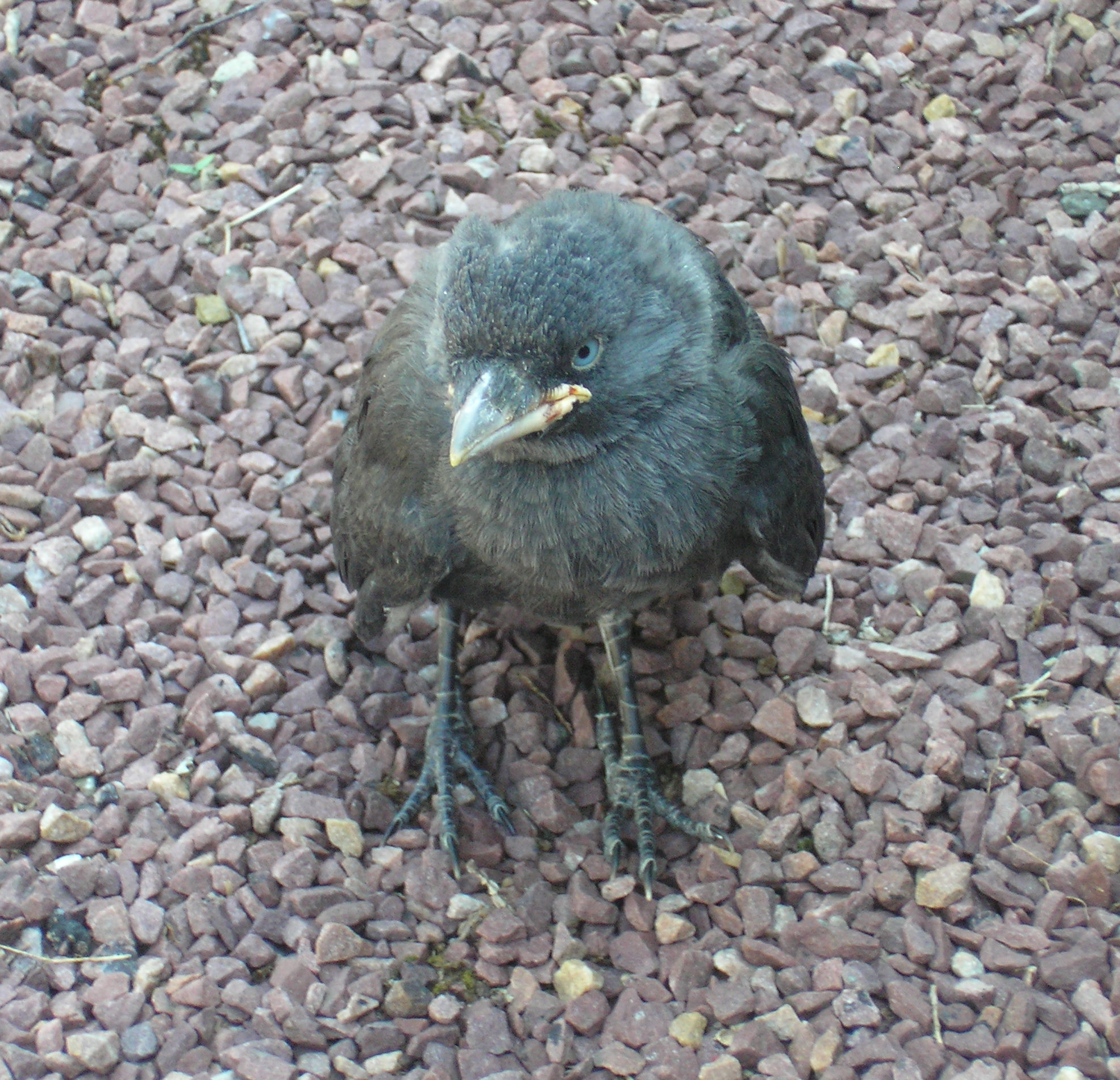 Young jackdaw (Corvus monedula). Photograph taken near church of Guilberville (Normandy, France).